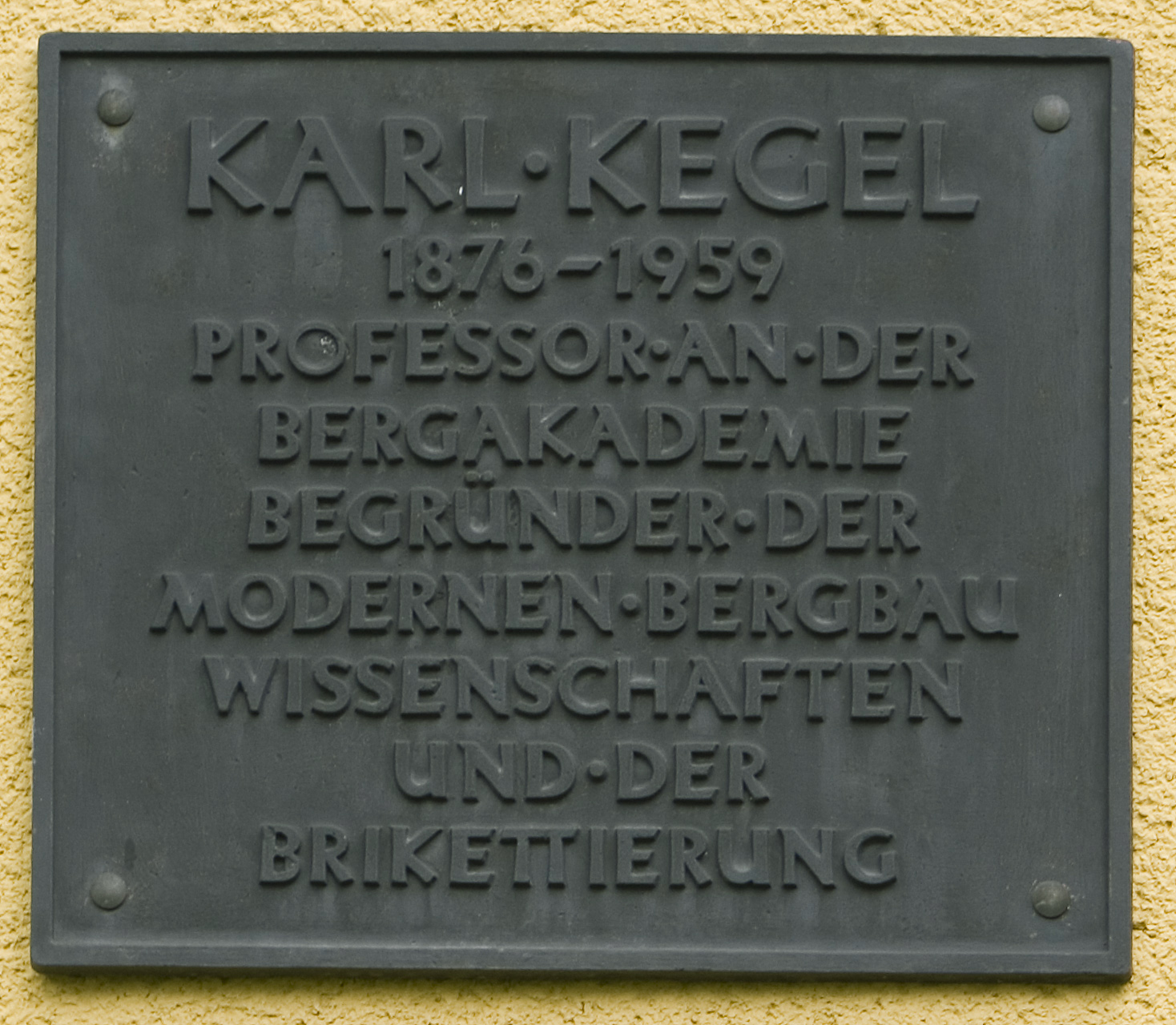 Karl Kegel, German mining engineer, plaque in Freiberg